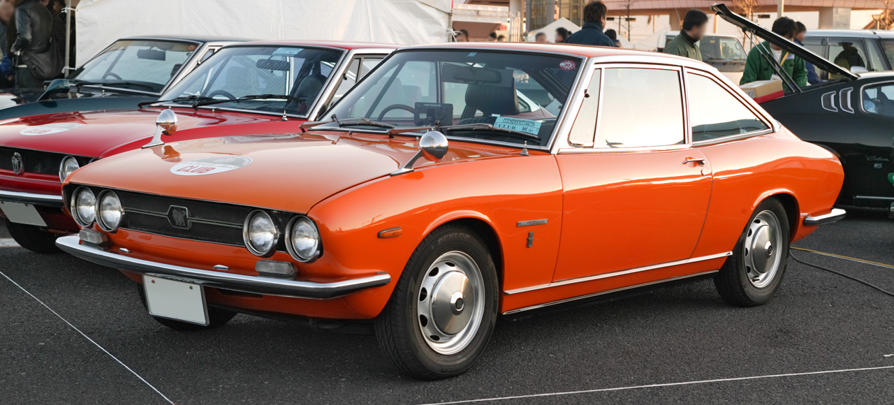 Isuzu 117 Coupé early type